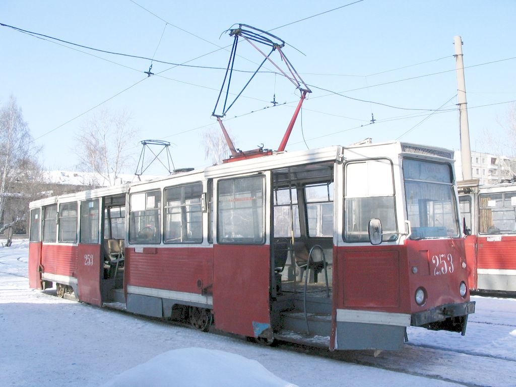 Short Summary Old tram in Tomsk